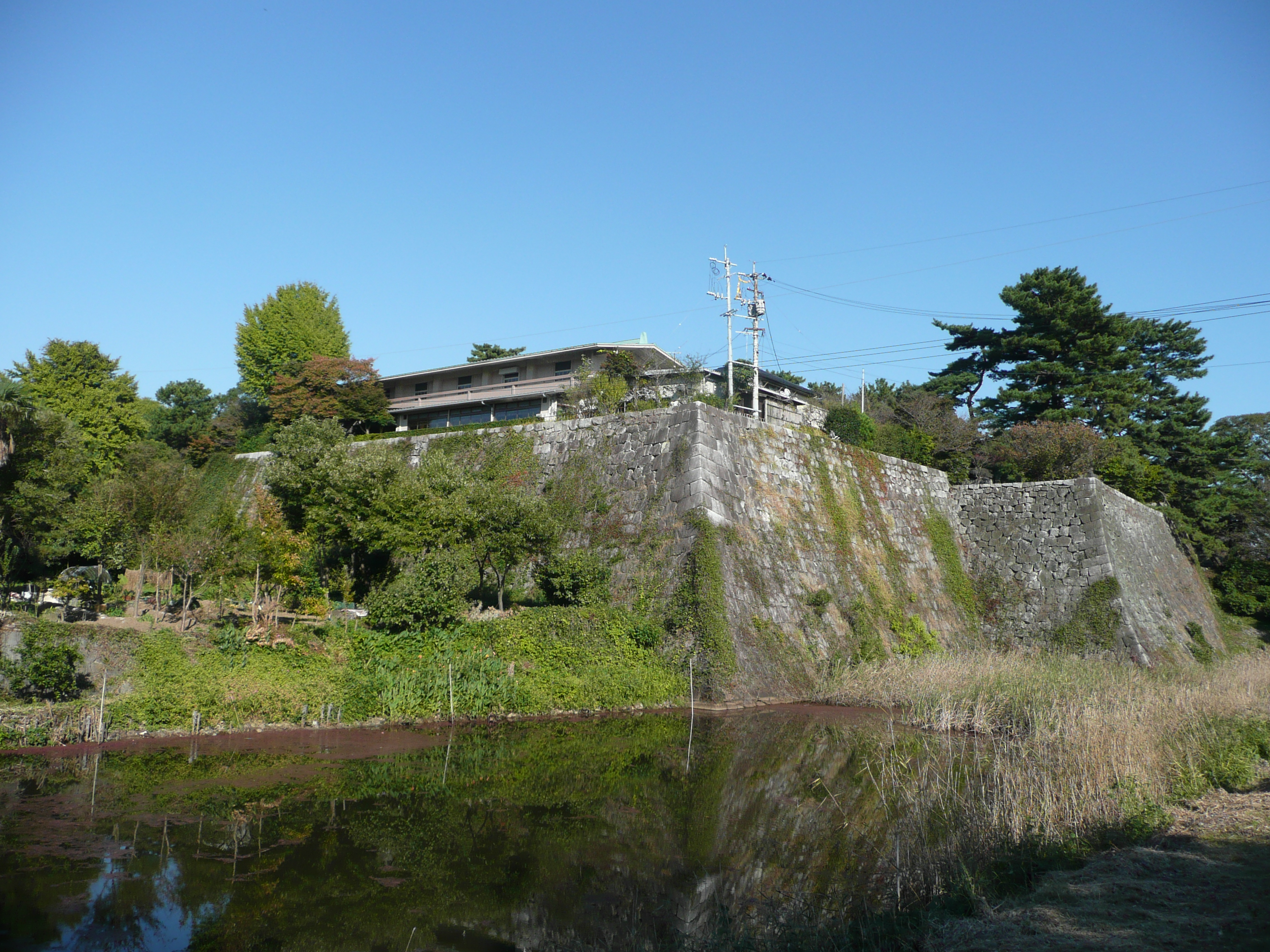 久留米城石垣。右から太鼓櫓、坤櫓、西下櫓跡